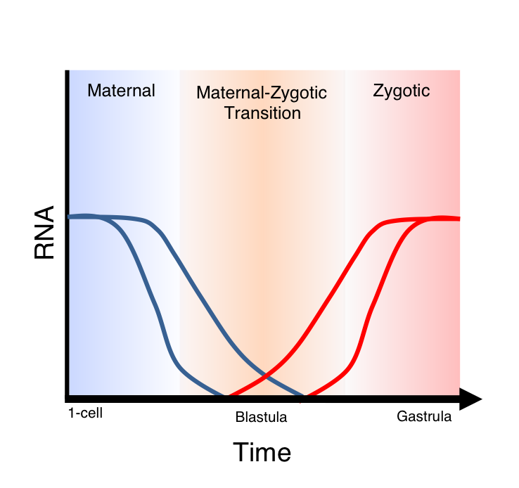 Generalized diagram of maternal and zygotic mRNA levels over the course of embryogenesis. Maternal to zygotic transition (MZT) is the period during which zygotic genes are activated and maternal transcripts are cleared. After Schier (2007).